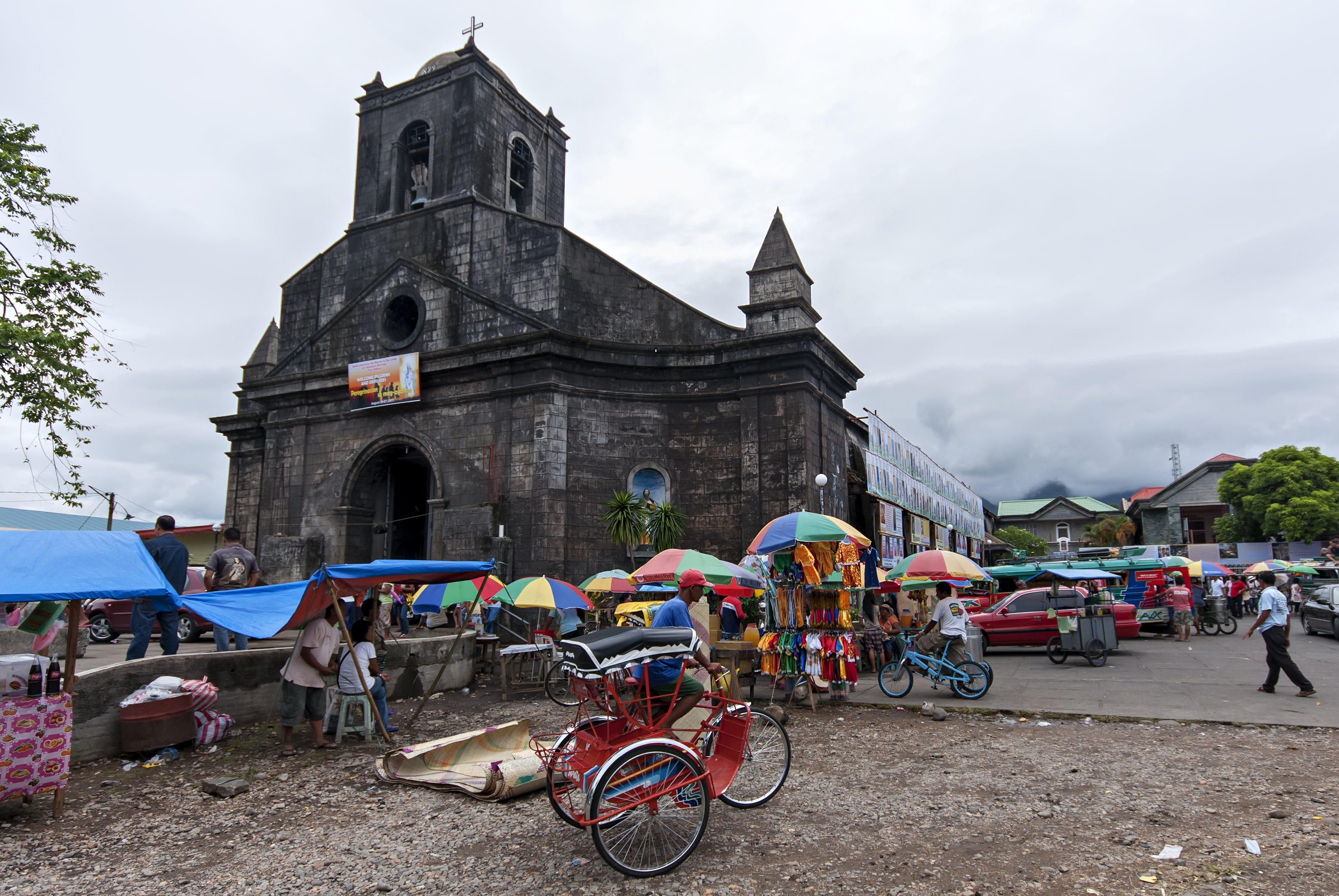 The Church of San Lorenzo in Tiwi, Albay, Philippines was built on 1829.